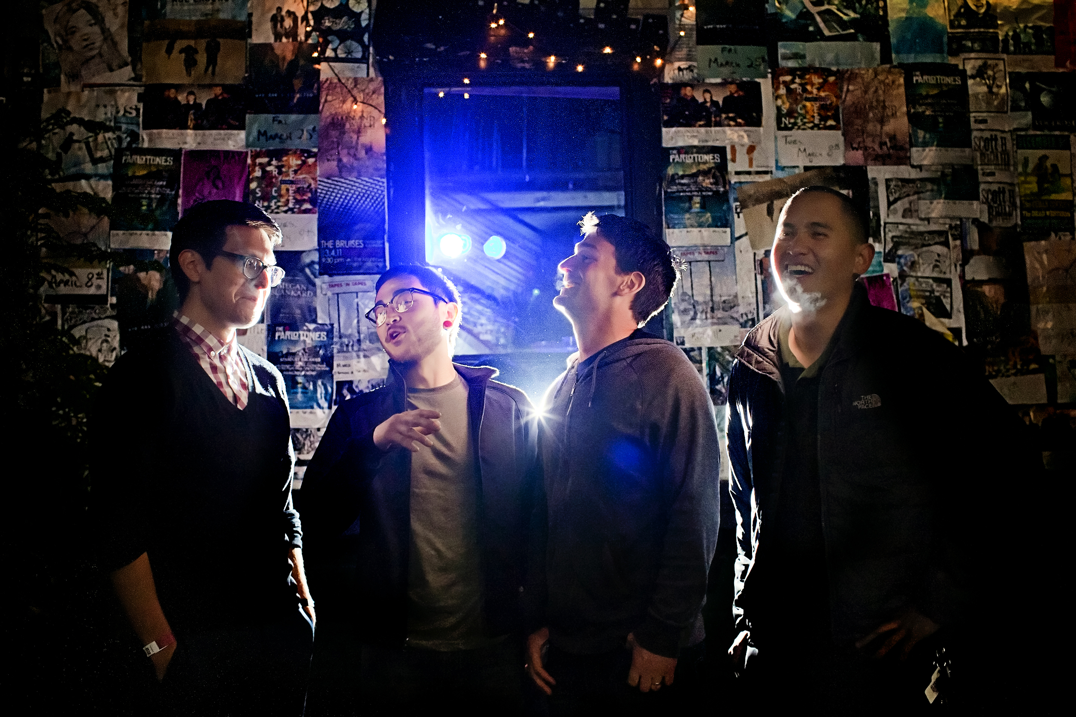 The Dandelion War promo picture